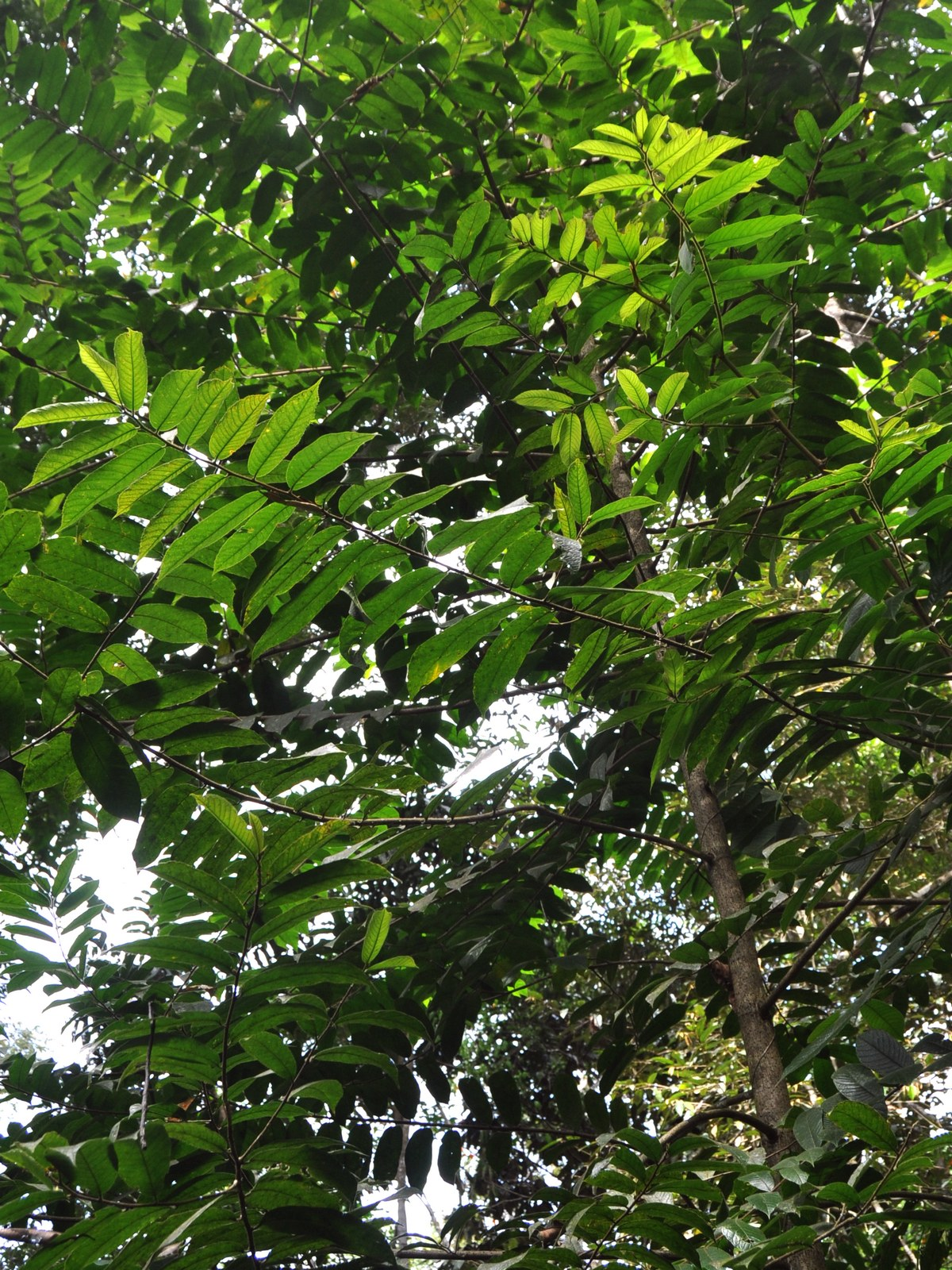 Twigs and branches of Upas (Antiaris toxicaria). From West Kalimantan, Indonesia.